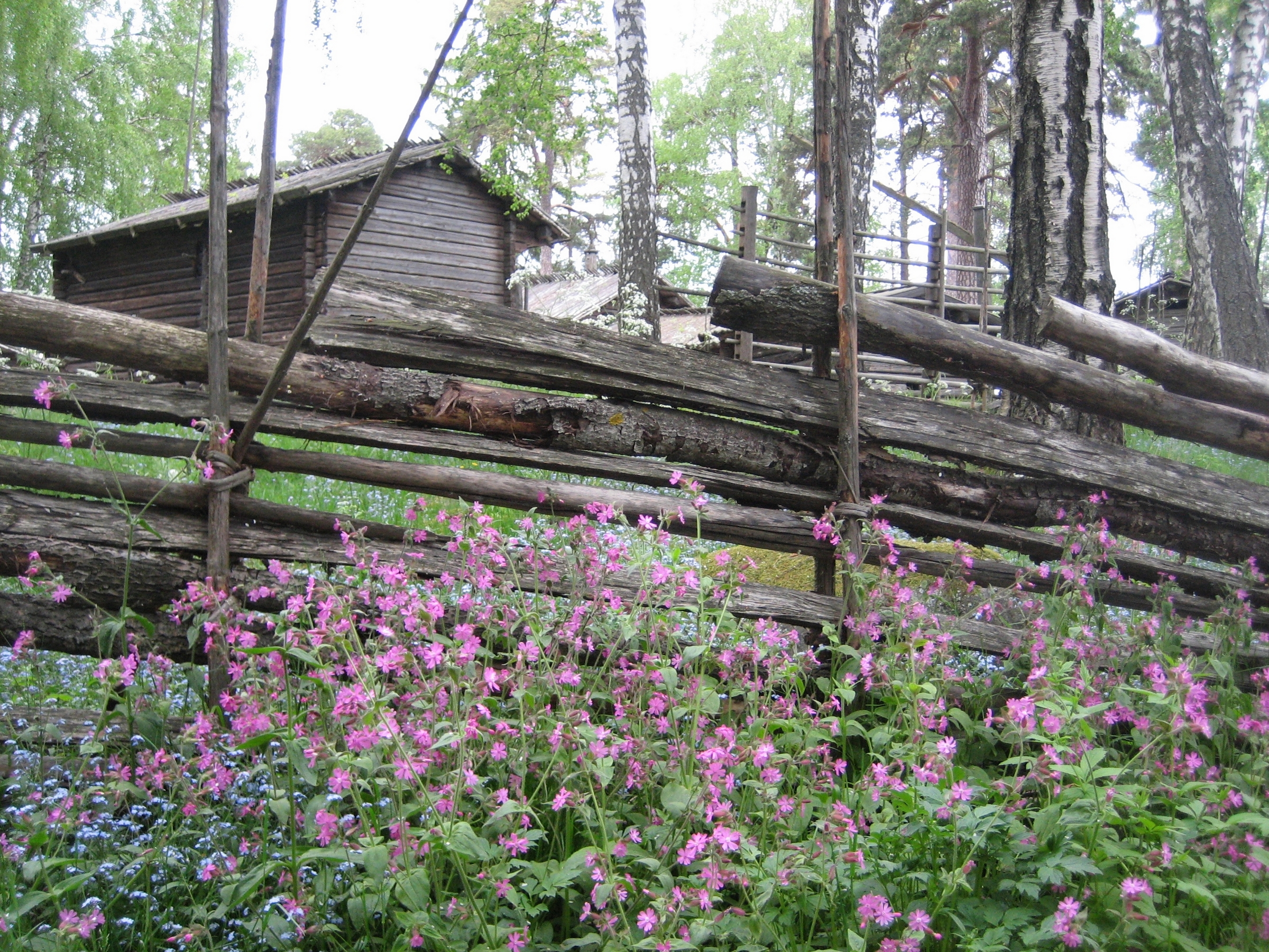 The Niemelä tenant farm (in Finnish: Niemelän torppa) has been transferred to the Seurasaari Open-Air Museum (Helsinki, Finland) from Konginkangas in the Central Finland.